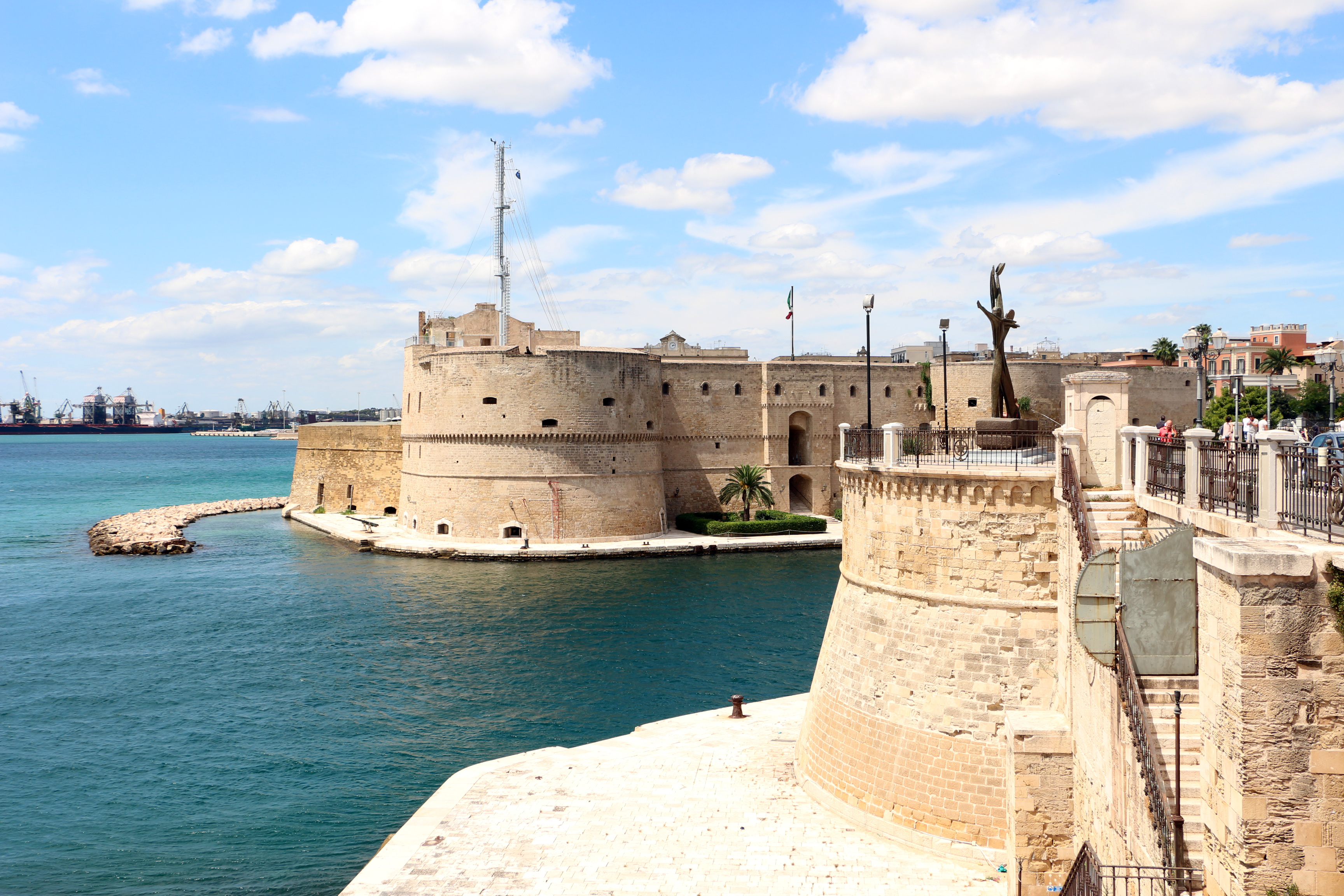 Buildings in Taranto